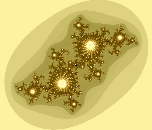 Julia set for c= -0.220858, -0.650752